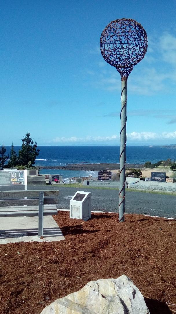 The Penguin community fund-raised to purchase this artpiece to celebrate the lives of its many unnamed children.